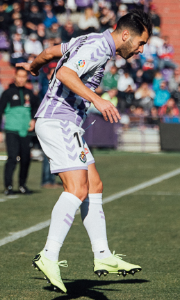 Real Valladolid - Rayo Vallecano, 18th fixture of the 2018-19 La Liga, January 5, 2019.